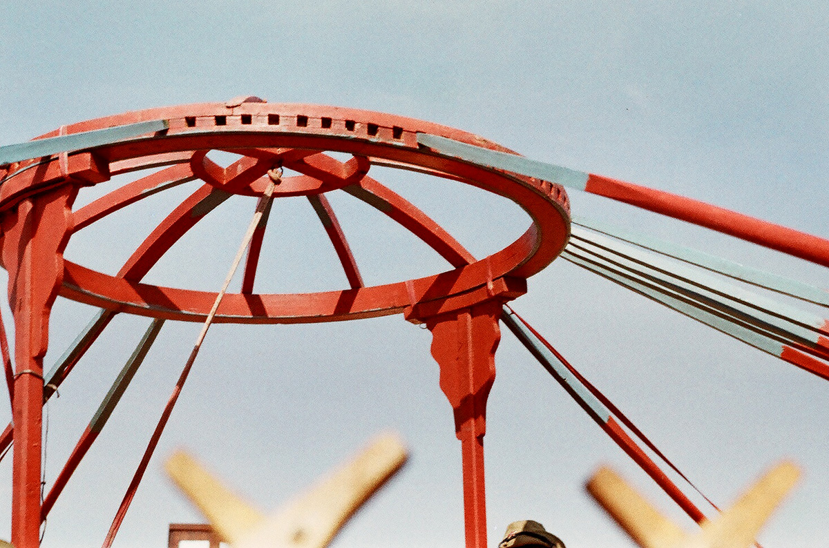 Construction of Mongolian yurt (ger). Baruun-Urt, Sukhbaatar aimag, 1972. Монгол: Баригдаж буй гэр. Баруун-Урт, Сүхбаатарын аймаг, 1972.